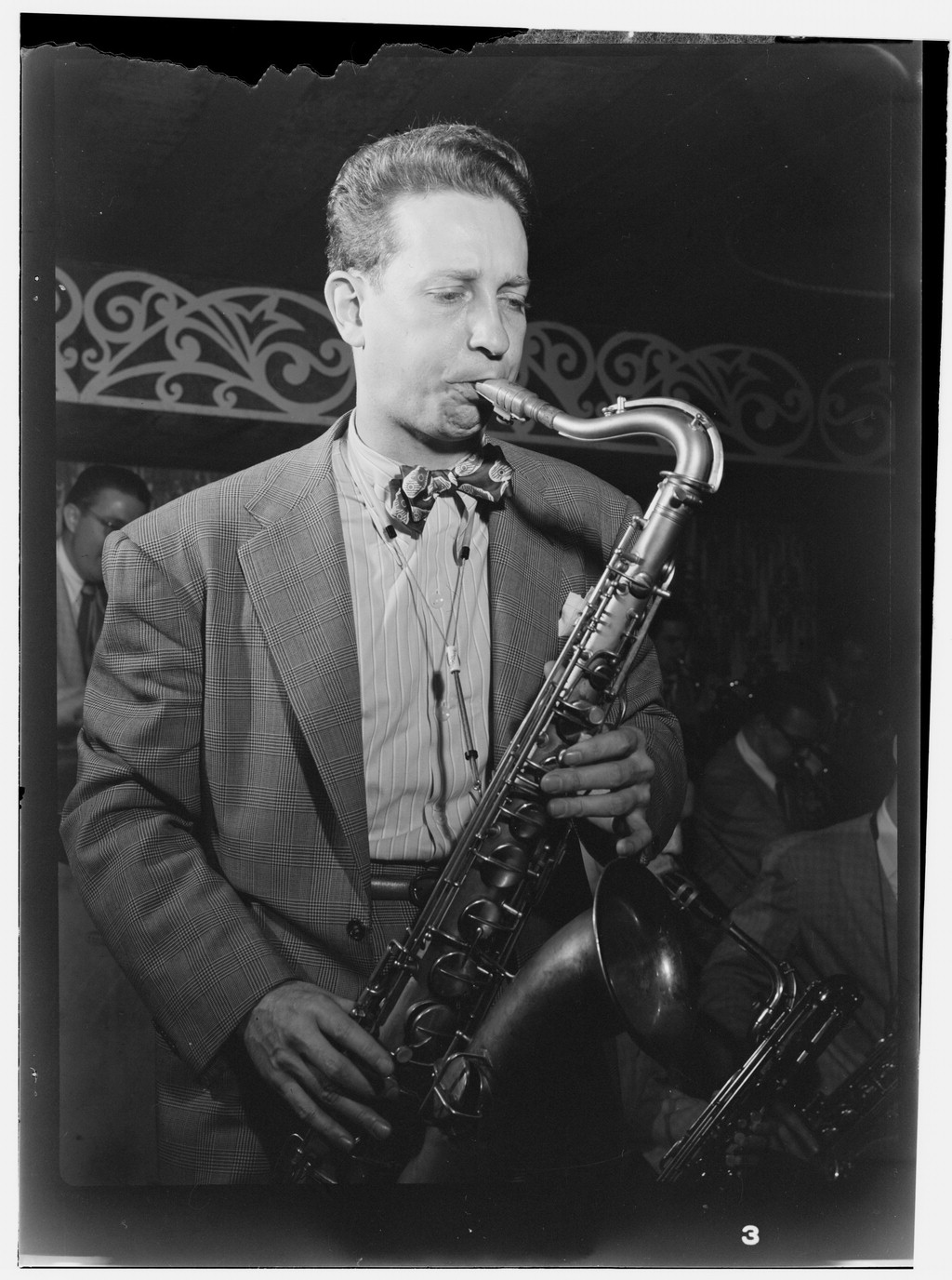 Sam Donahue, Aquarium, NYC, ca. December 1946. Photography by William P. Gottlieb